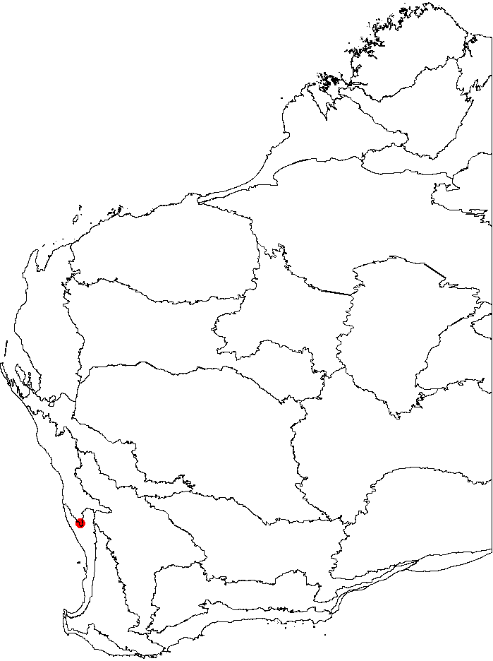 This is a map of Western Australia, showing the distribution of Banksia prionophylla (formerly Dryandra prionotes) superimposed on a background of the IBRA 6.1 biogeographic regions.